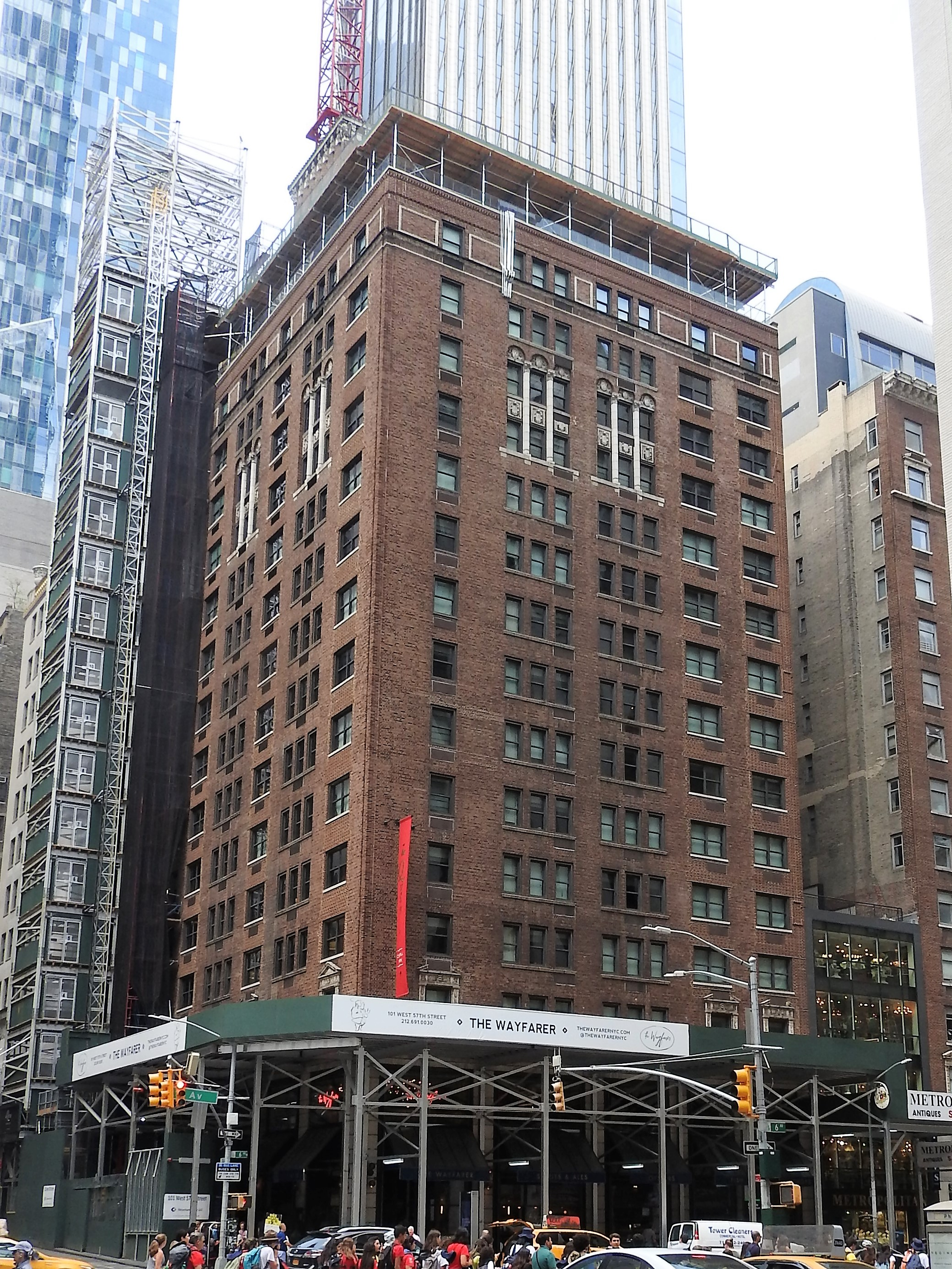 Looking north across 57th & 6th